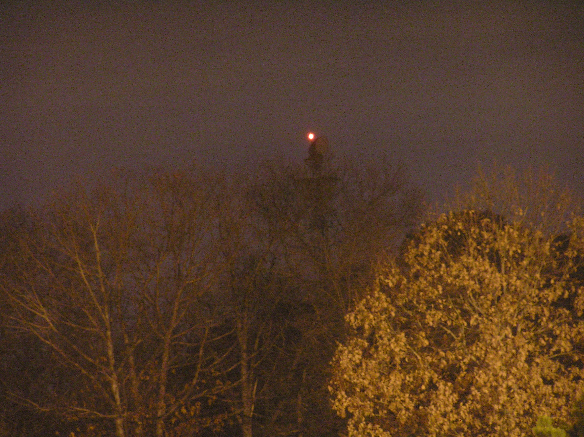 A night shot of a Microwave Tower, using a Red/White Strobe in Monroe Township, NJ Note that the lighting at the top only uses one strobe instead of two OM&L: FAA Chapters 4, 8, 12 Advisory Circular: 70/7460-1K